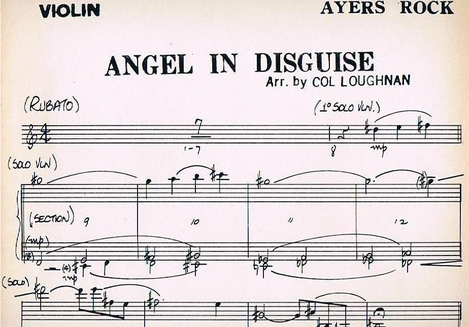 Original manuscript of the violin part in the arrangement for the string section of the song "Angel in Disguise" written by Col Loughnan for the album Beyond by Ayers Rock